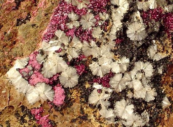 Erythrite, Stellerite Locality: Sara Alicia Mine, San Bernardo, Municipio de Alamos, Sonora, Mexico (Locality at ) Size: 19.0 x 9.8 x 8.0 cm. Bright and lustrous, radiating, magenta erythrite needle crystal clusters RICHLY covering ALL sides of this LARGE CABINET specimen. The front is BEAUTIFULLY and RICHLY covered with white and black clusters of radiating, acicular crystals, like star bursts and really compliments the erythrite. The white and black minerals are stellerite, a RARE association. This excellent specimen is from an UNCOMMON Mexican locality - the Sara Alicia Mine, San Bernardo, Sonora, Mexico. This is a choice and HUGE specimen for this locality.